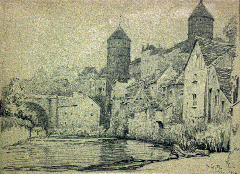 Fortified town (possibly Saumur) by river, France. 1 drawing : crayon.